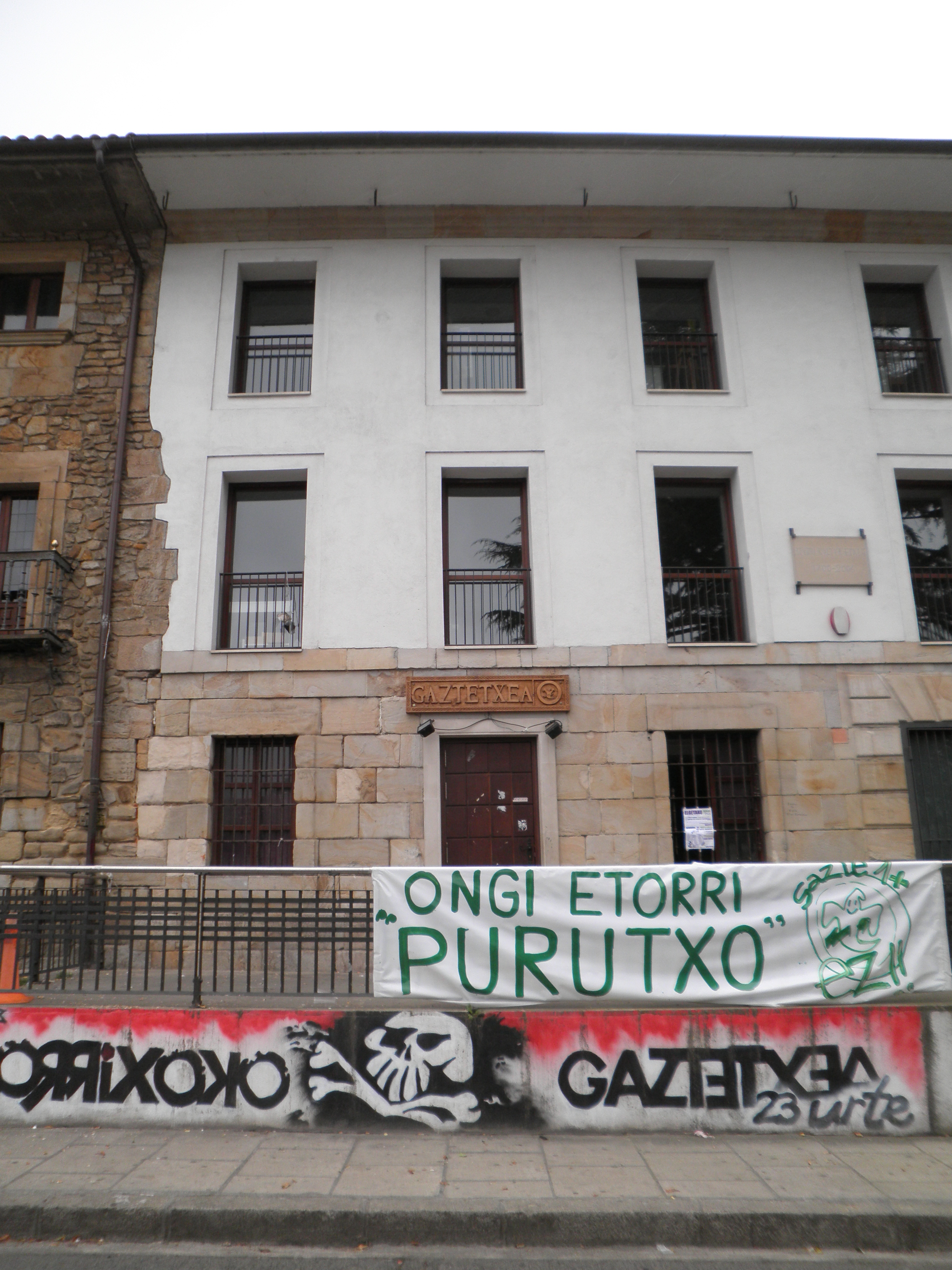 House for young people activities. Elorrio, Basque Country.